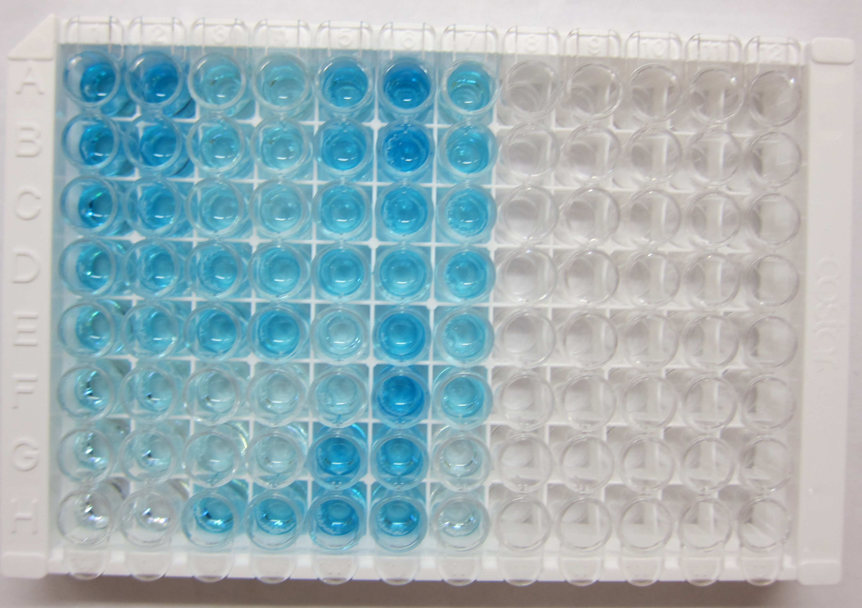 ELISA plate image with various cortisol level